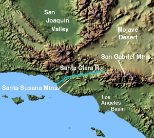 Santa Clara River © 2004 Matthew Trump